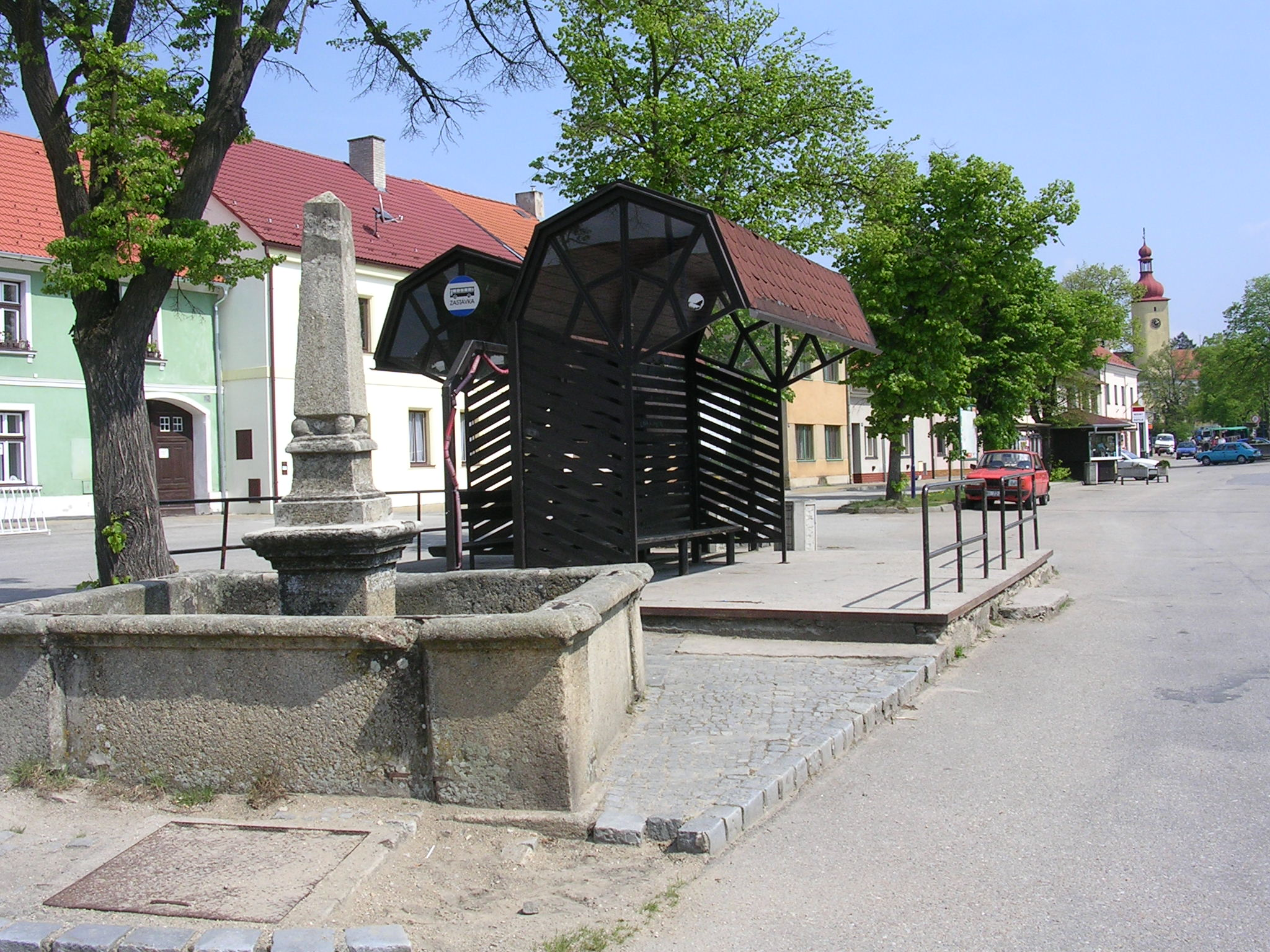 Stráž nad Nežárkou, South Bohemian Region, the Czech Republic.